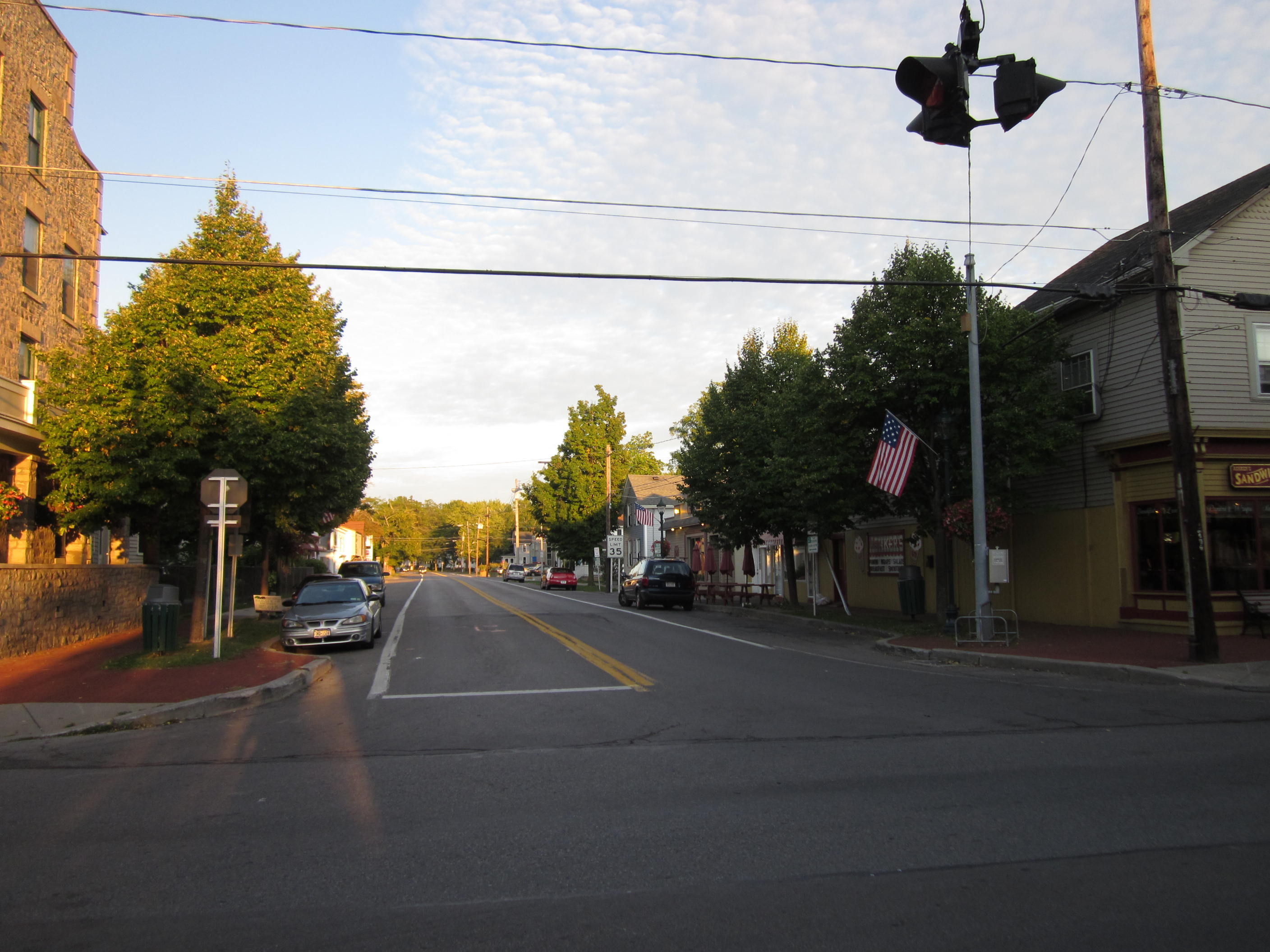 New York State Route 93 heading eastward from New York State Route 18F in the village of Youngstown.